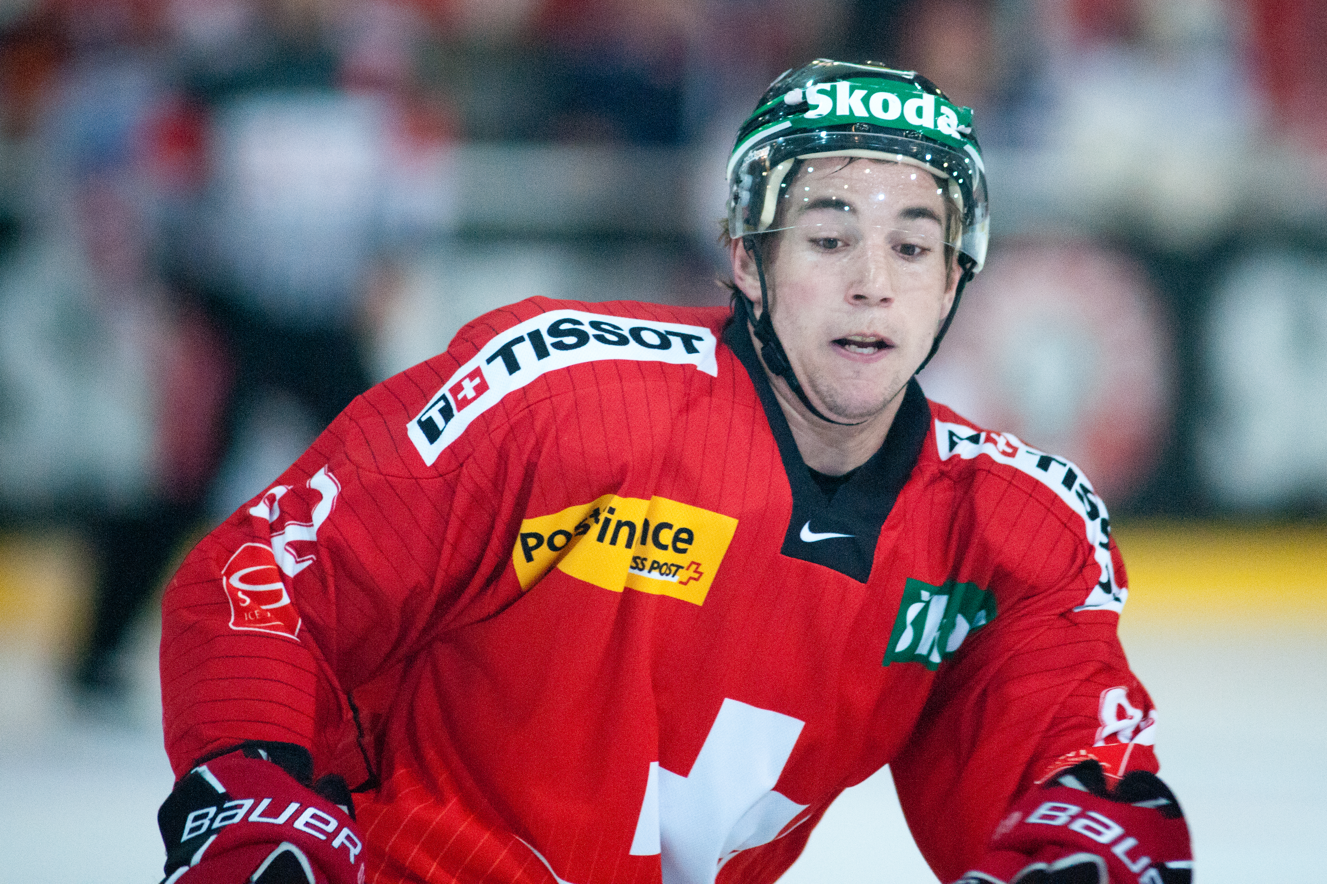 The making of this document was supported by Wikimedia CH. (Submit your project!) For all the files concerned, please see the category Supported by Wikimedia CH. Switzerland vs. Russia, 8th April 2011